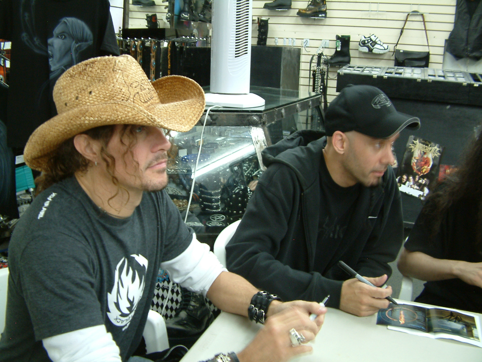 Mats Levén and Kristian Niemann, 2005